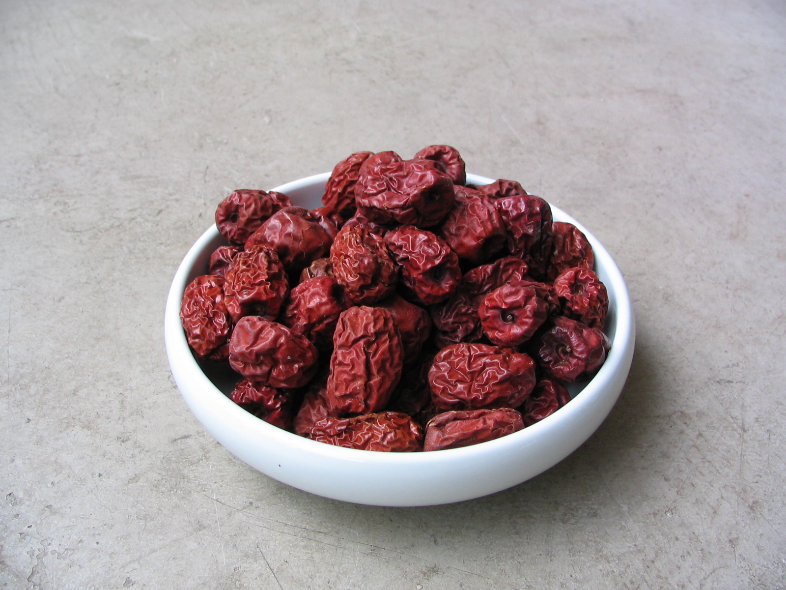 Ziziphus zizyphus (syn. Z. jujuba), Jujubes (= Chinese dates) from Korea, named 'Daechu' (대추)